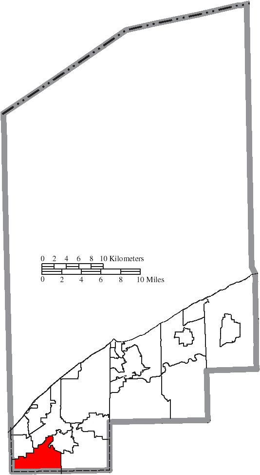 Map of the municipal and township boundaries of Lake County, Ohio, United States, as of the 2000 census, with the location of the city of Willoughby Hills highlighted. Township borders are shown only in unincorporated areas in order to differentiate incorporated and unincorporated areas more clearly.